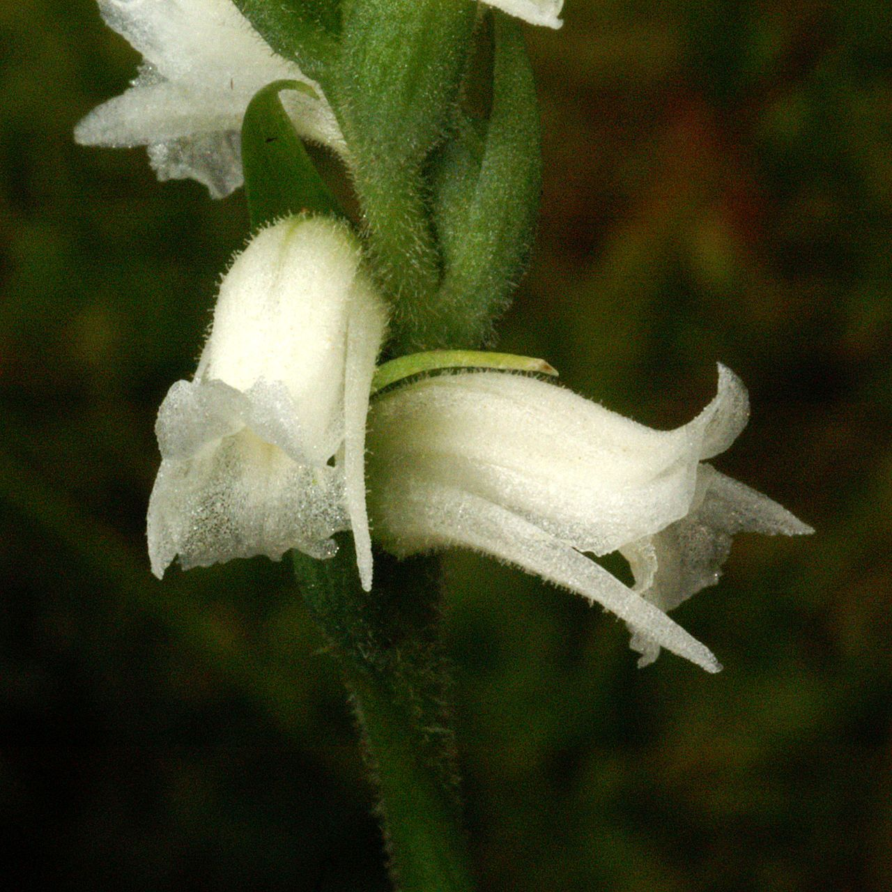 Spiranthes ochroleuca - flowers